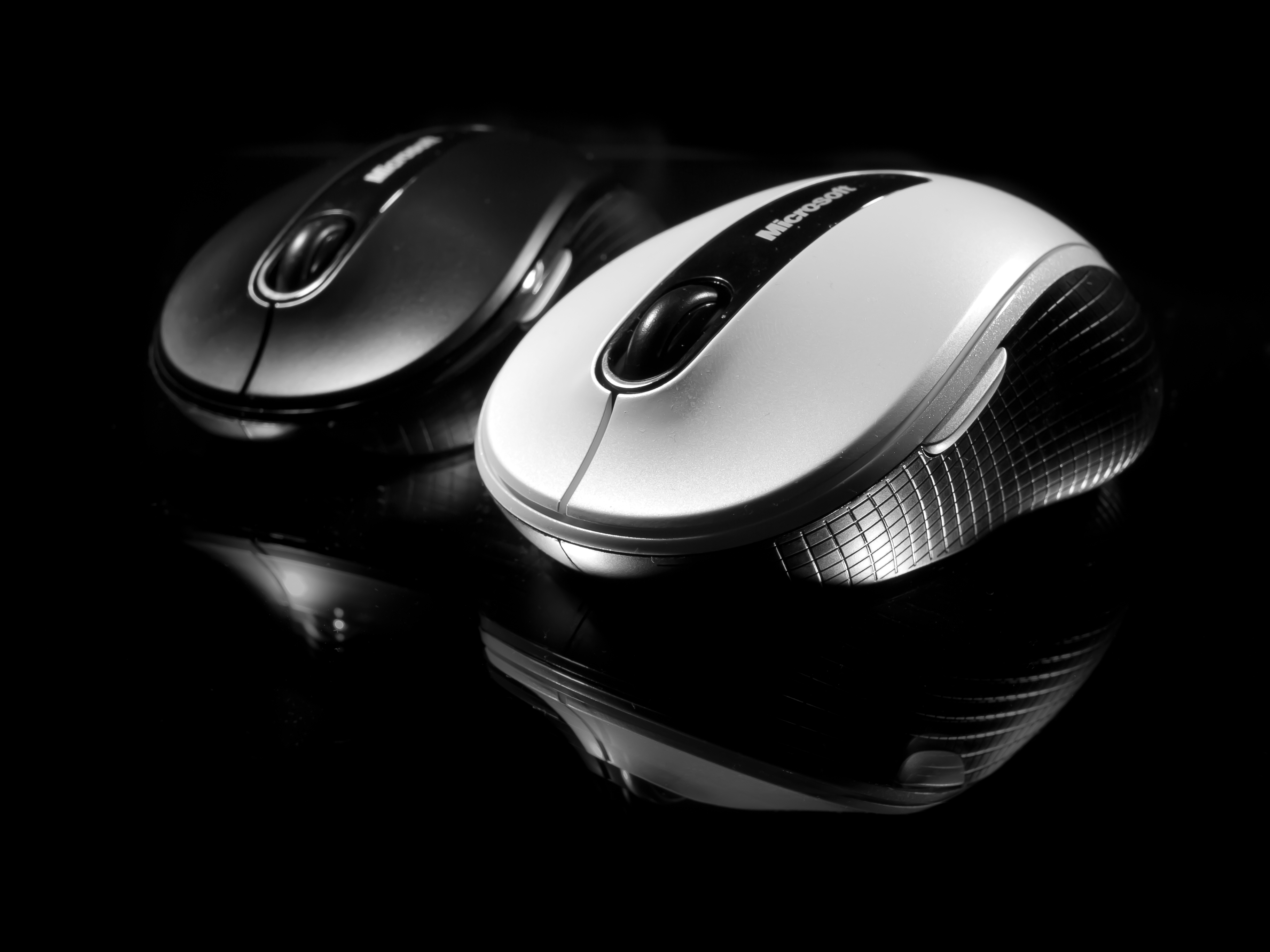 Two Microsoft Wireless Mobile Mouse 4000 mice mirrored on a black background